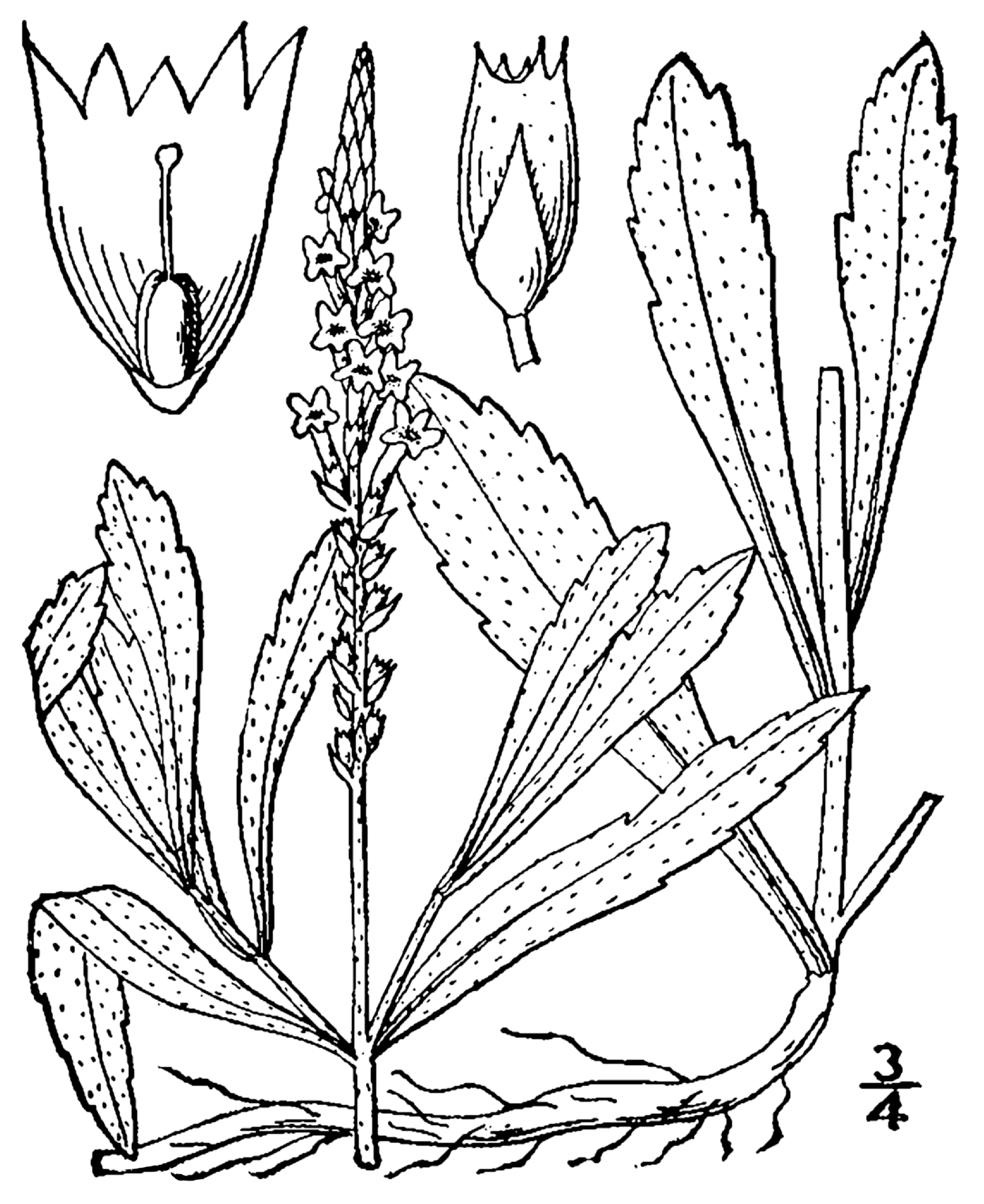 Verbena simplex Lehm. - narrowleaf vervain